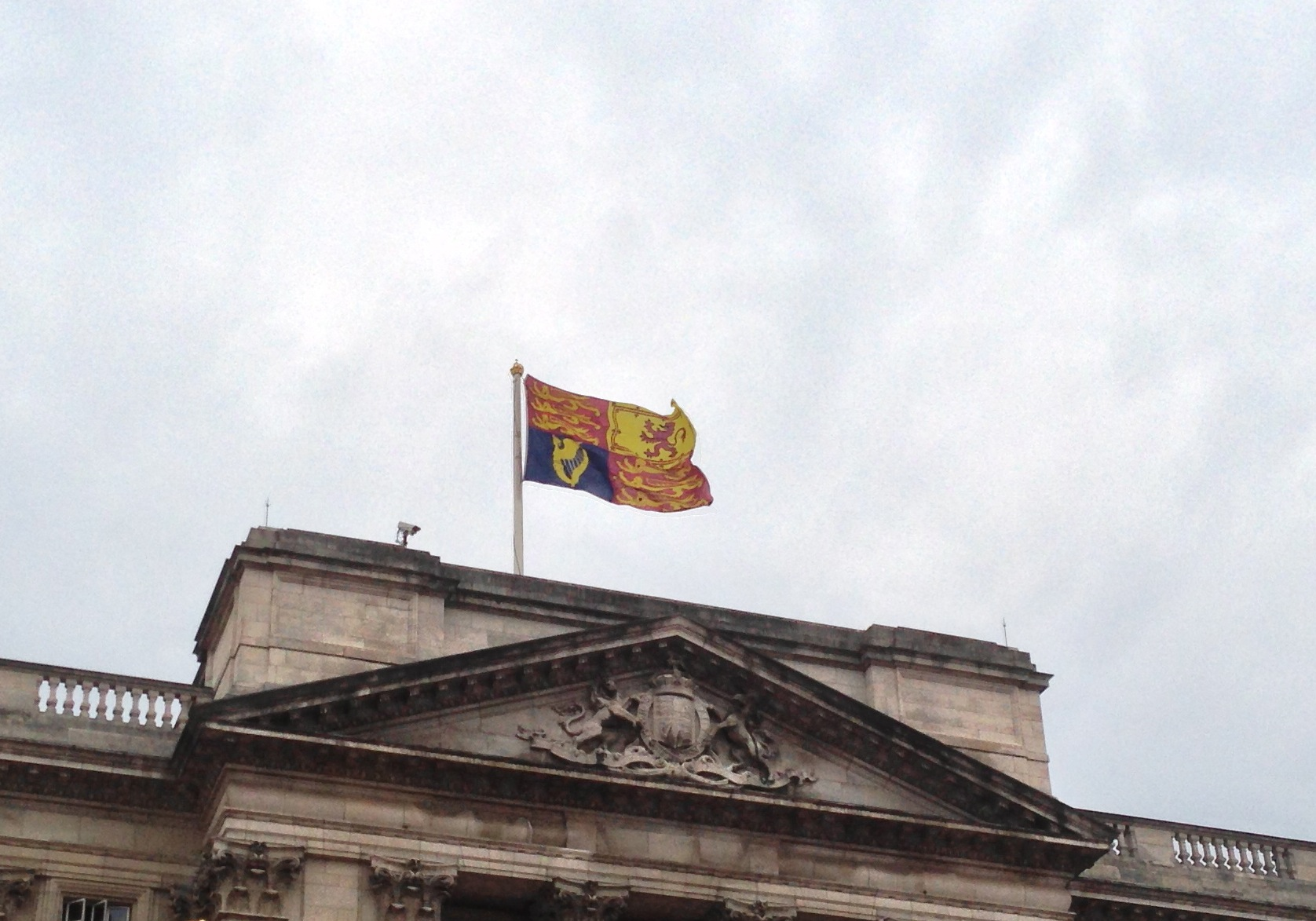 The ceremonial Royal Standard flying over Buckingham Palace.